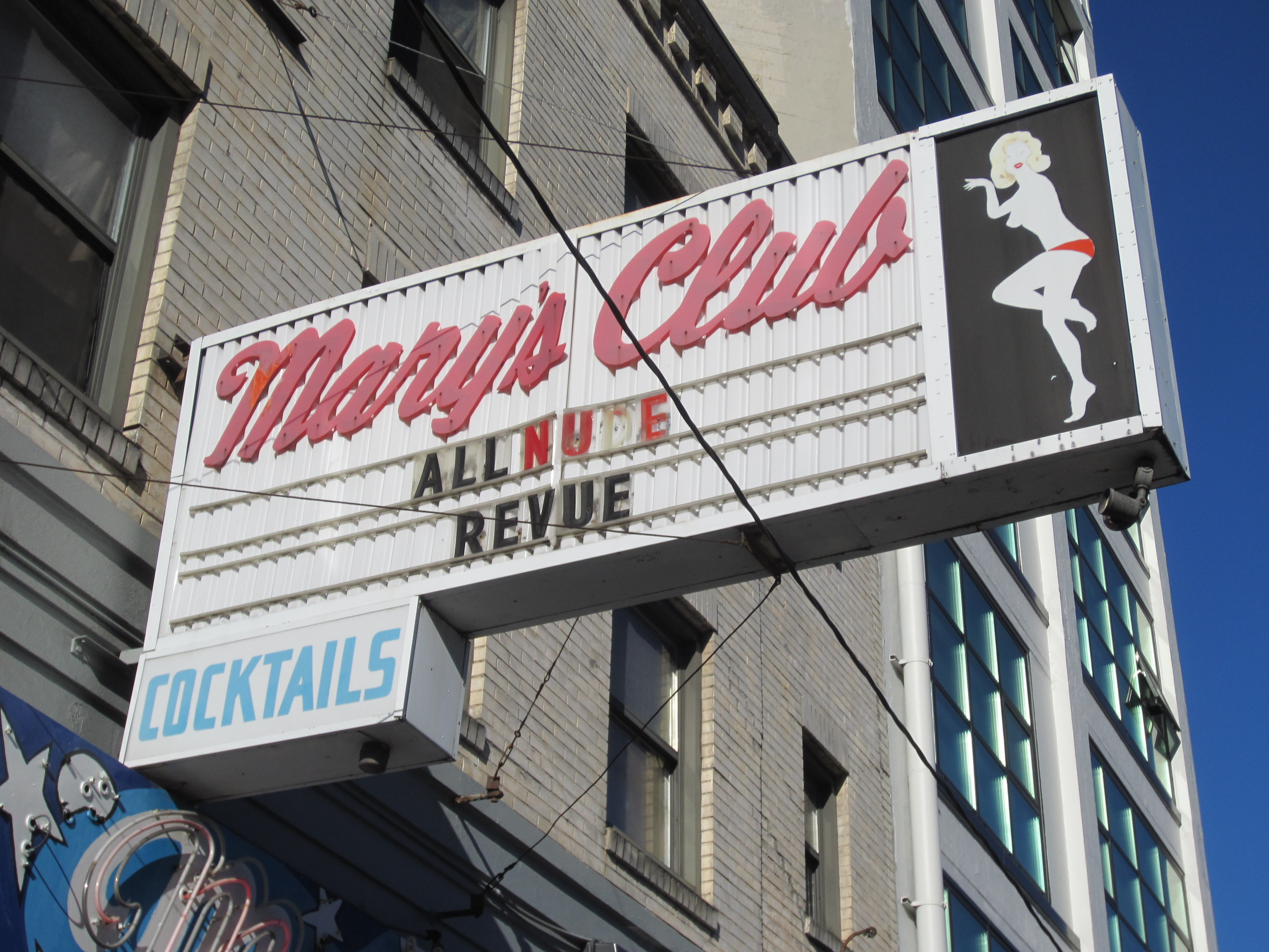 Mary's Club, Portland, Oregon (2014)